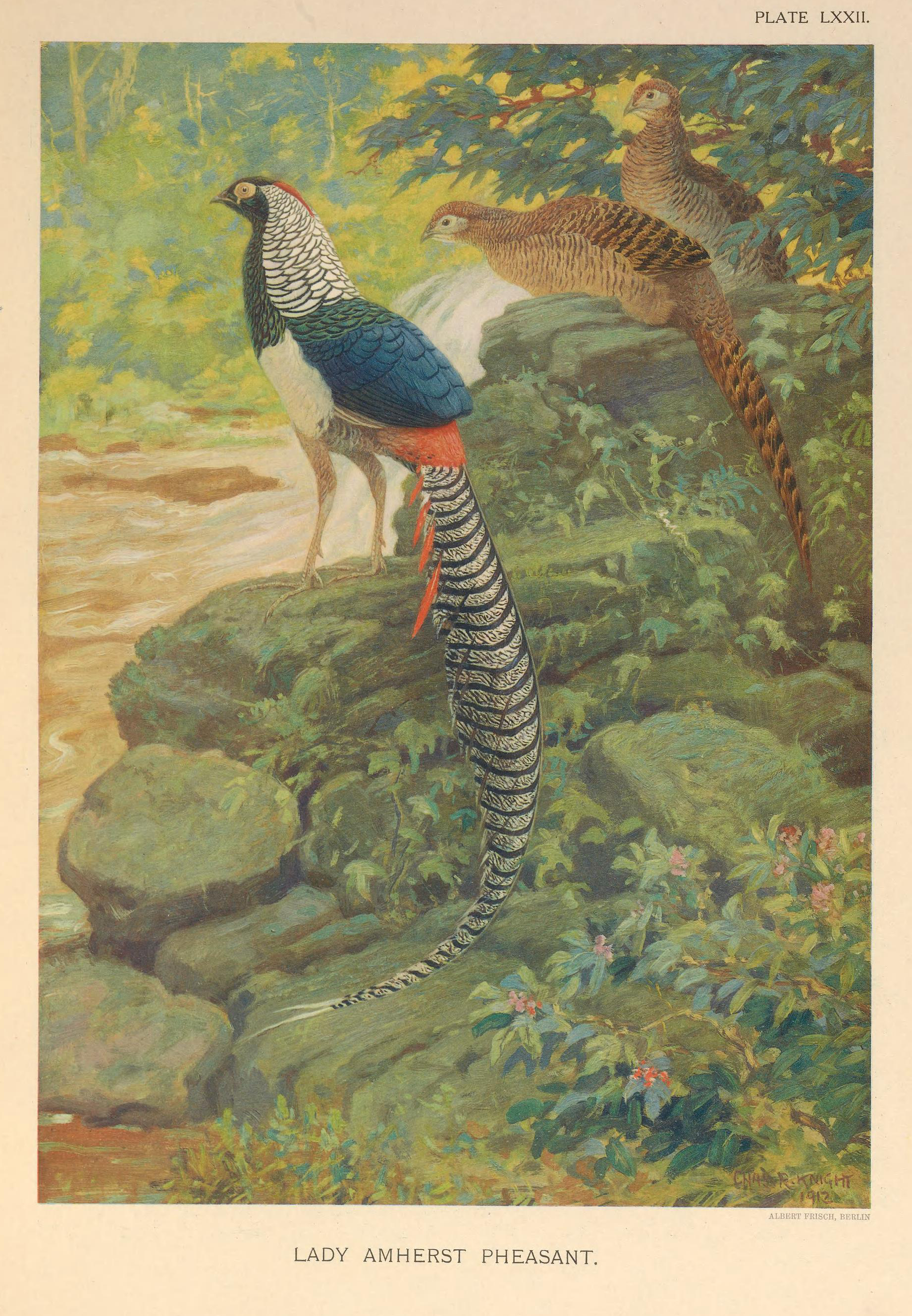 Lady Amherst Pheasant (Chrysolophus amherstiae)